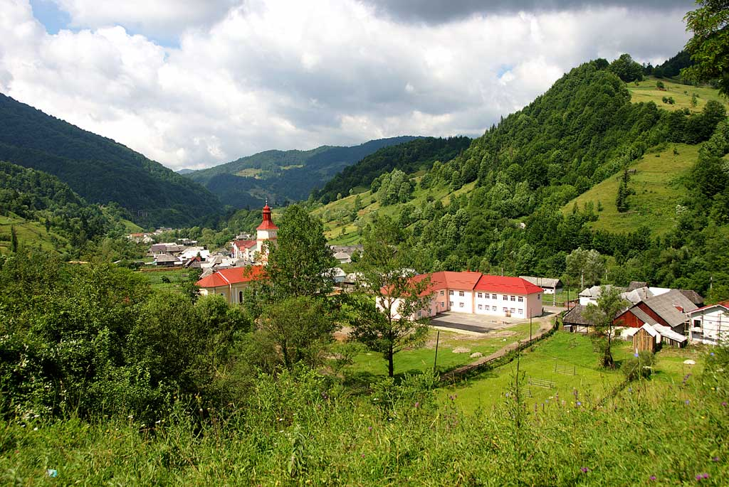 Romuli - View from the Station to the south